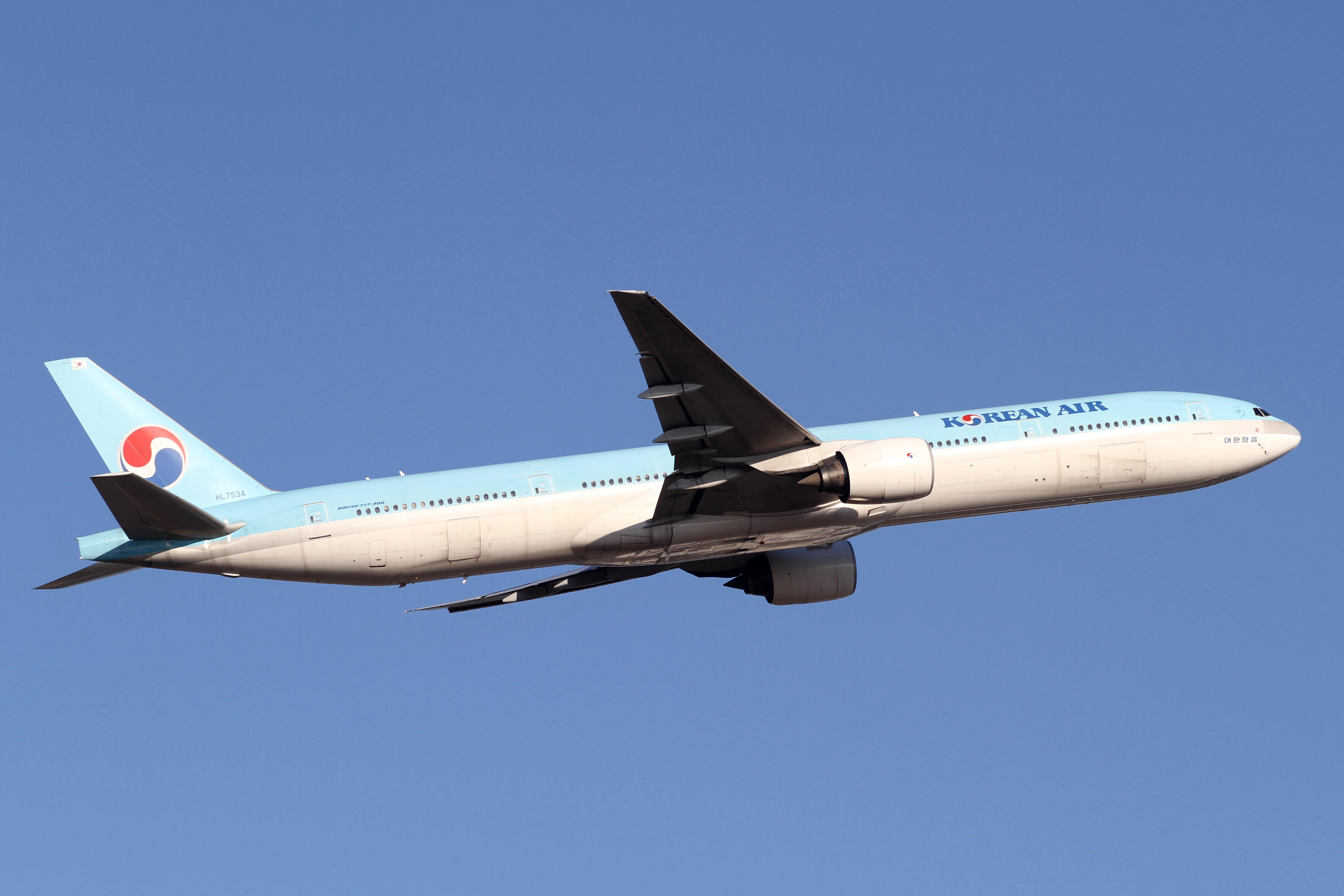 Narita International Airport, Boeing 777-3B5, c/n:27950, Korean Air